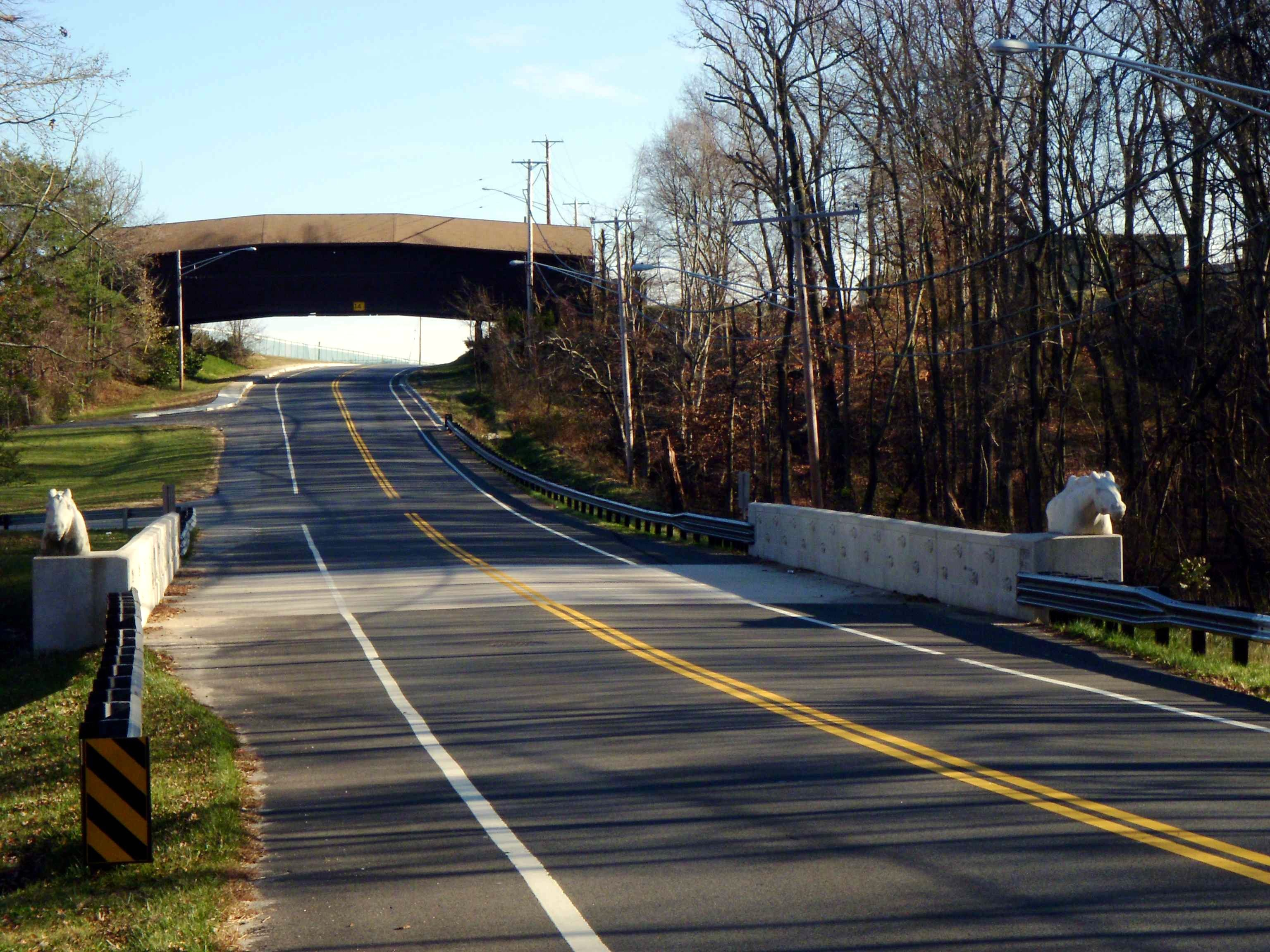 Covered Horse Bridge at Bowie Race Track (MD) over Race Track Road in Bowie, MD